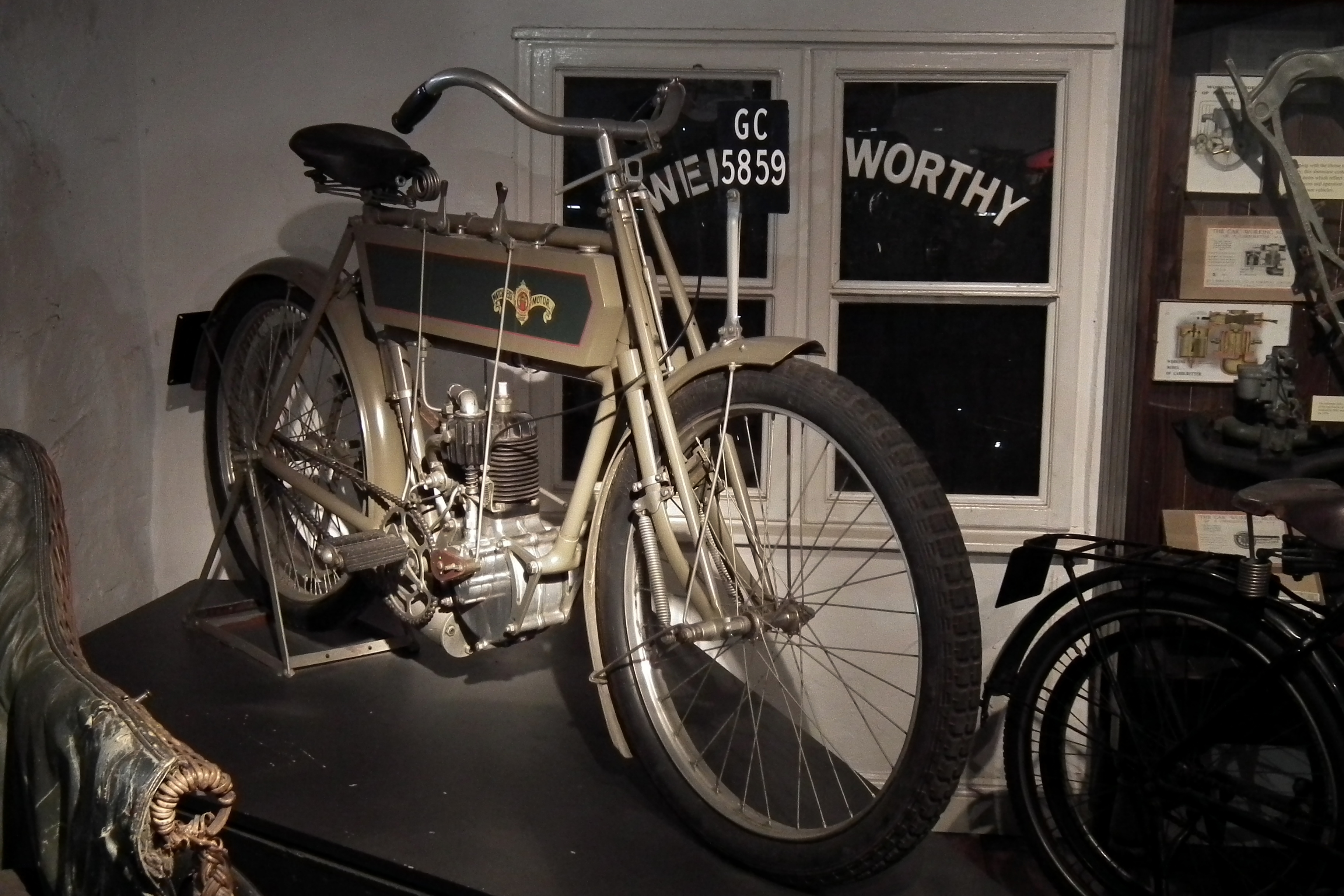 1905 Matchless 2½hp motorcycle. Taken at the National Motor Museum in Beaulieu, Hampshire, England.